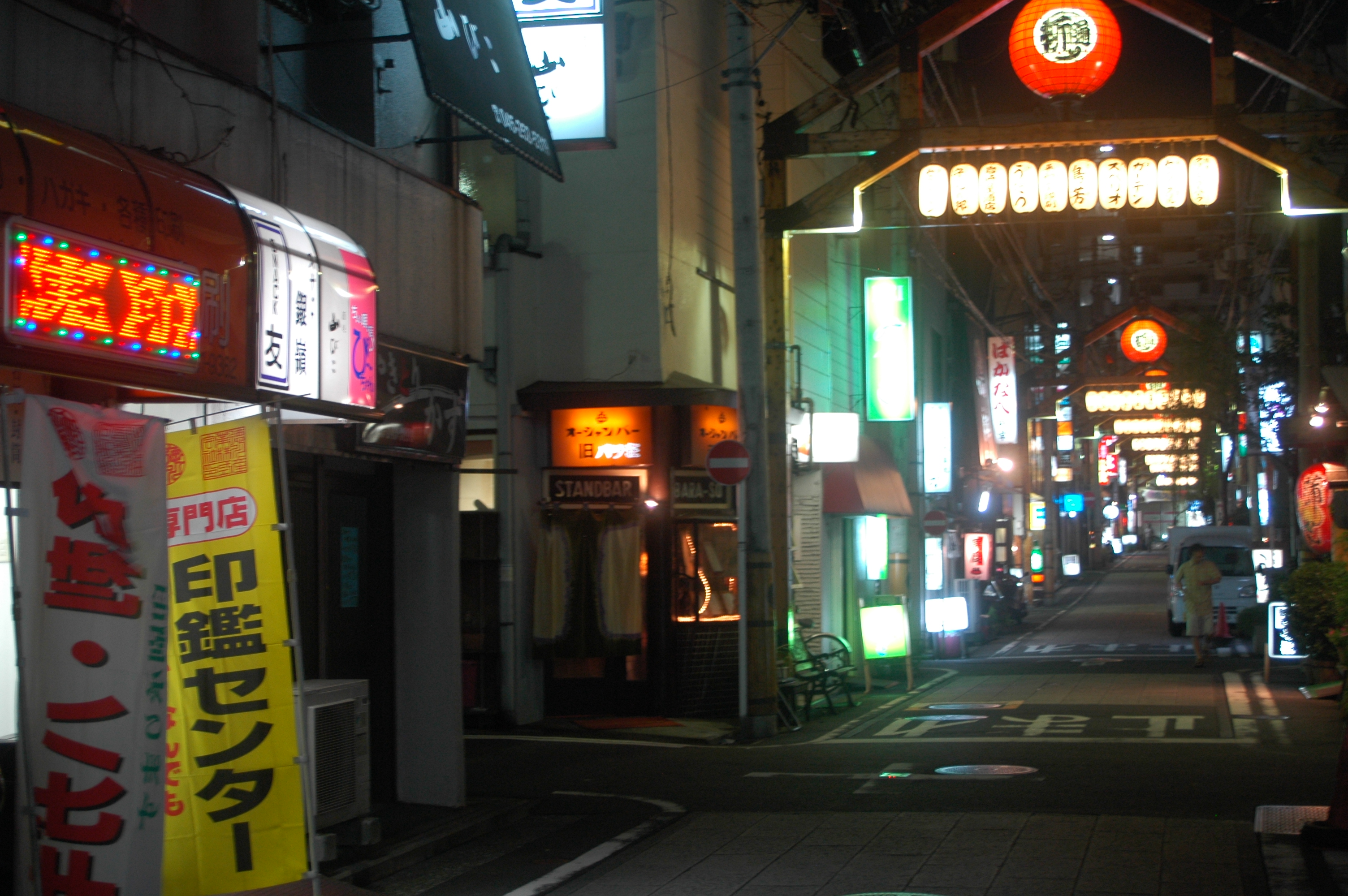 noge street in the night